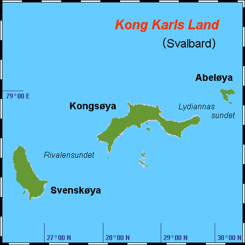 Map Kong Karls Land (rough), Svalbard, Norway, own work composed from various mapreferences